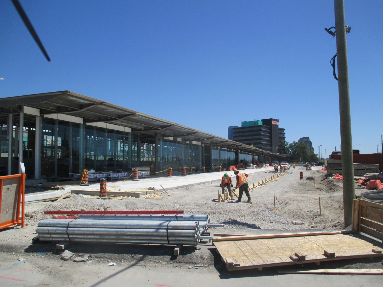 Science Centre station bus terminal under construction as of June 2020